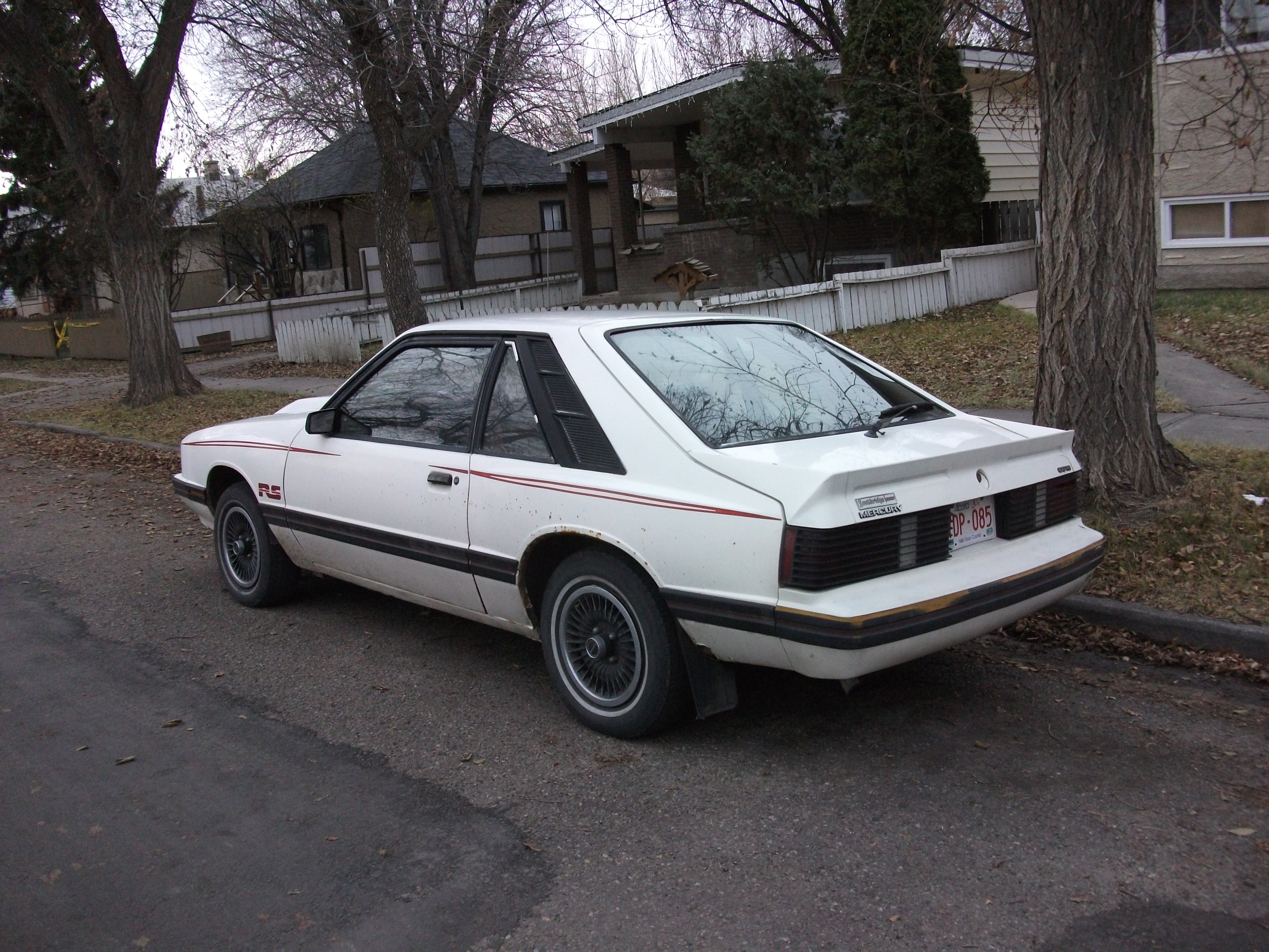 Not many of these Mercury Capri RS left around - certainly not in this nice, stock condition.